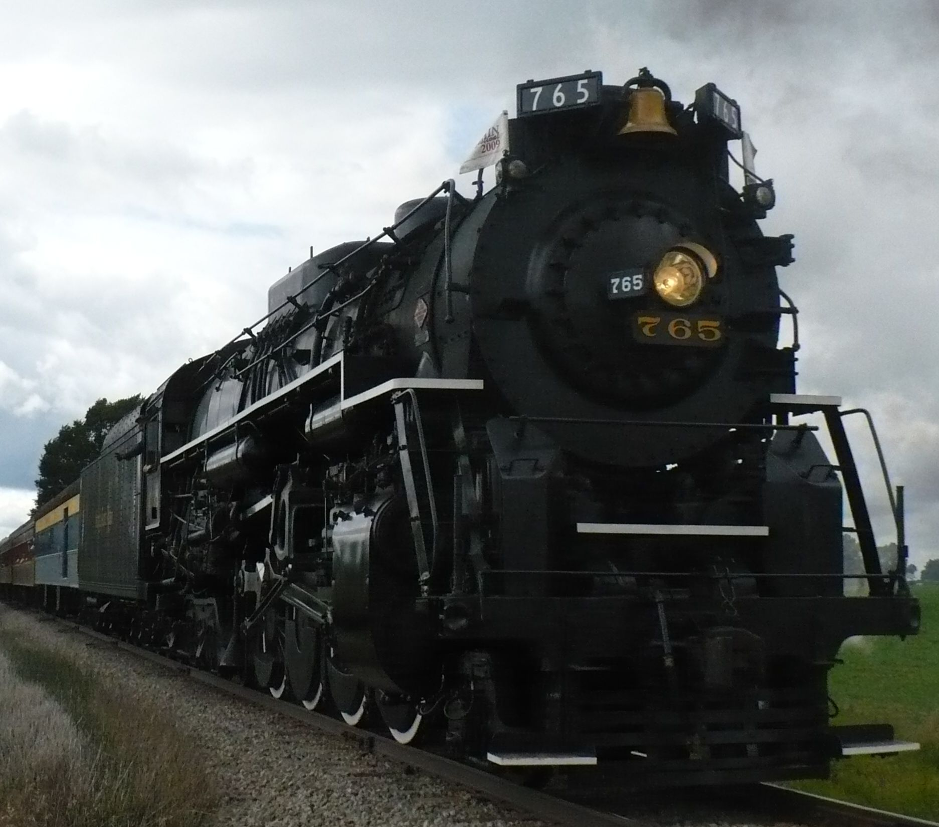 Nickel Plate 765 leads an excursion during TrainFestival 2009, near Owosso, Michigan